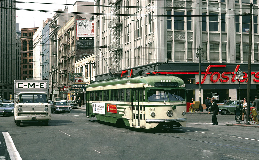 San Francisco PCC-type streetcar 1008 (built in 1948), southbound on First Street, crossing Mission Street, on the approach to Eastbay Terminal (Transbay Terminal), in 1970. It is nearing the end of a trip inbound on route K, and the motorman has already changed the destination sign for the next trip, outbound to Ocean Avenue & Phelan Avenue. A Foster's cafeteria is in the background.